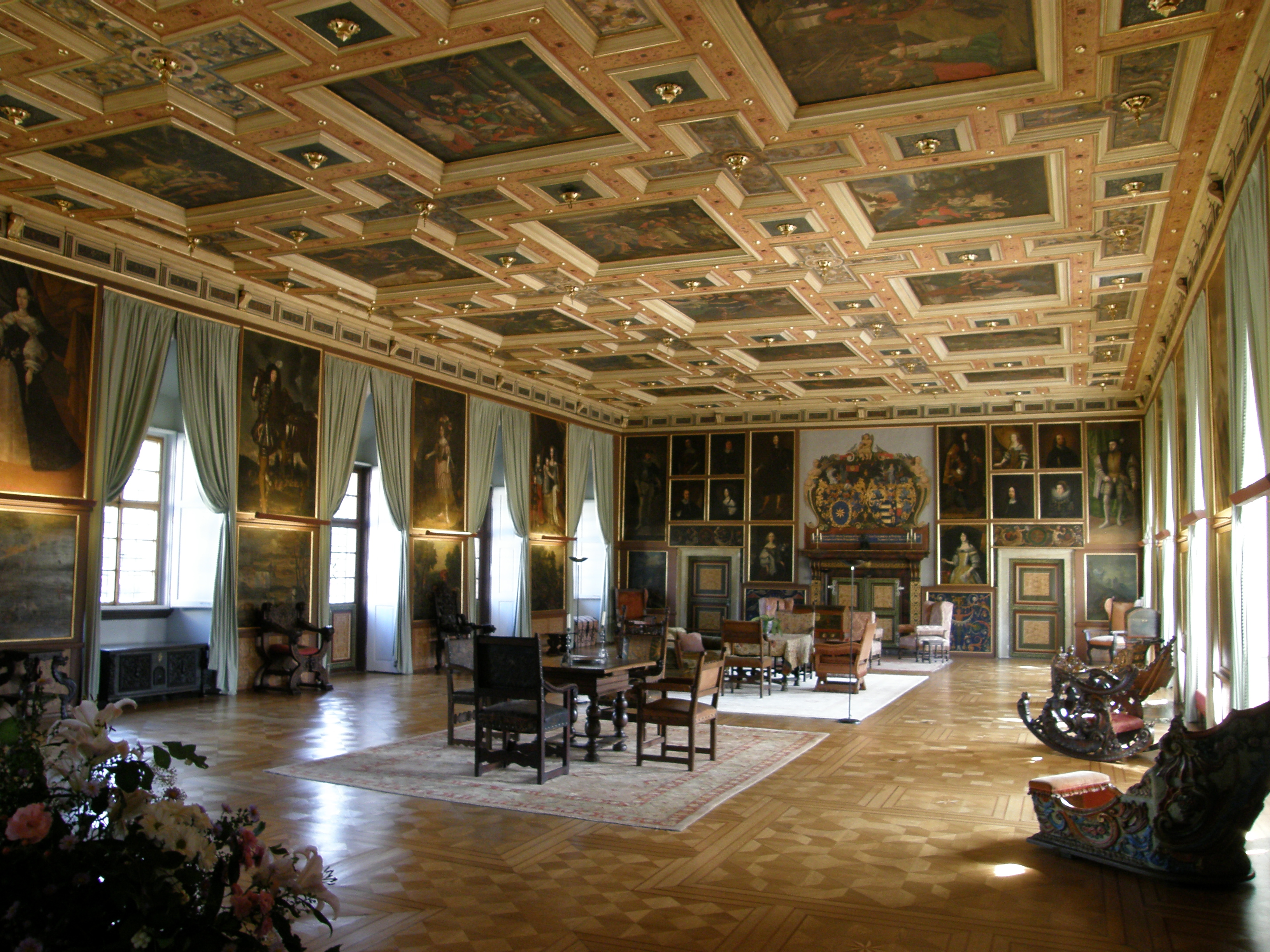 Knight's hall in Castolovice castle